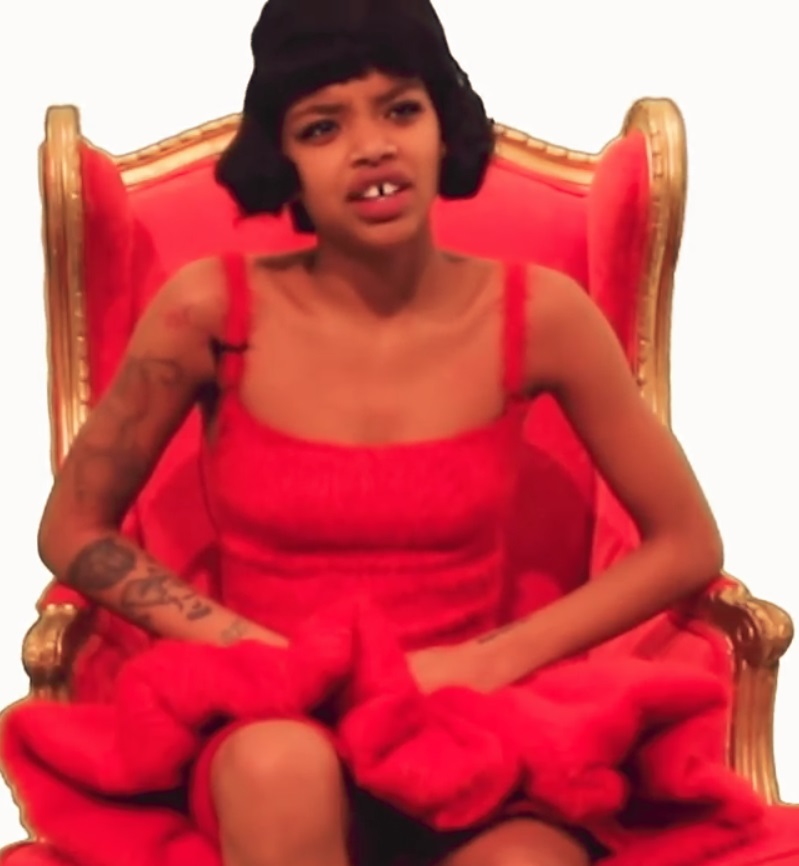 American model Slick Woods on Big Sister Episode 2 - Edie Campell, rumours - LOVE Edie Campbell and the rest of the 17.5 girls discuss those malicious rumours...